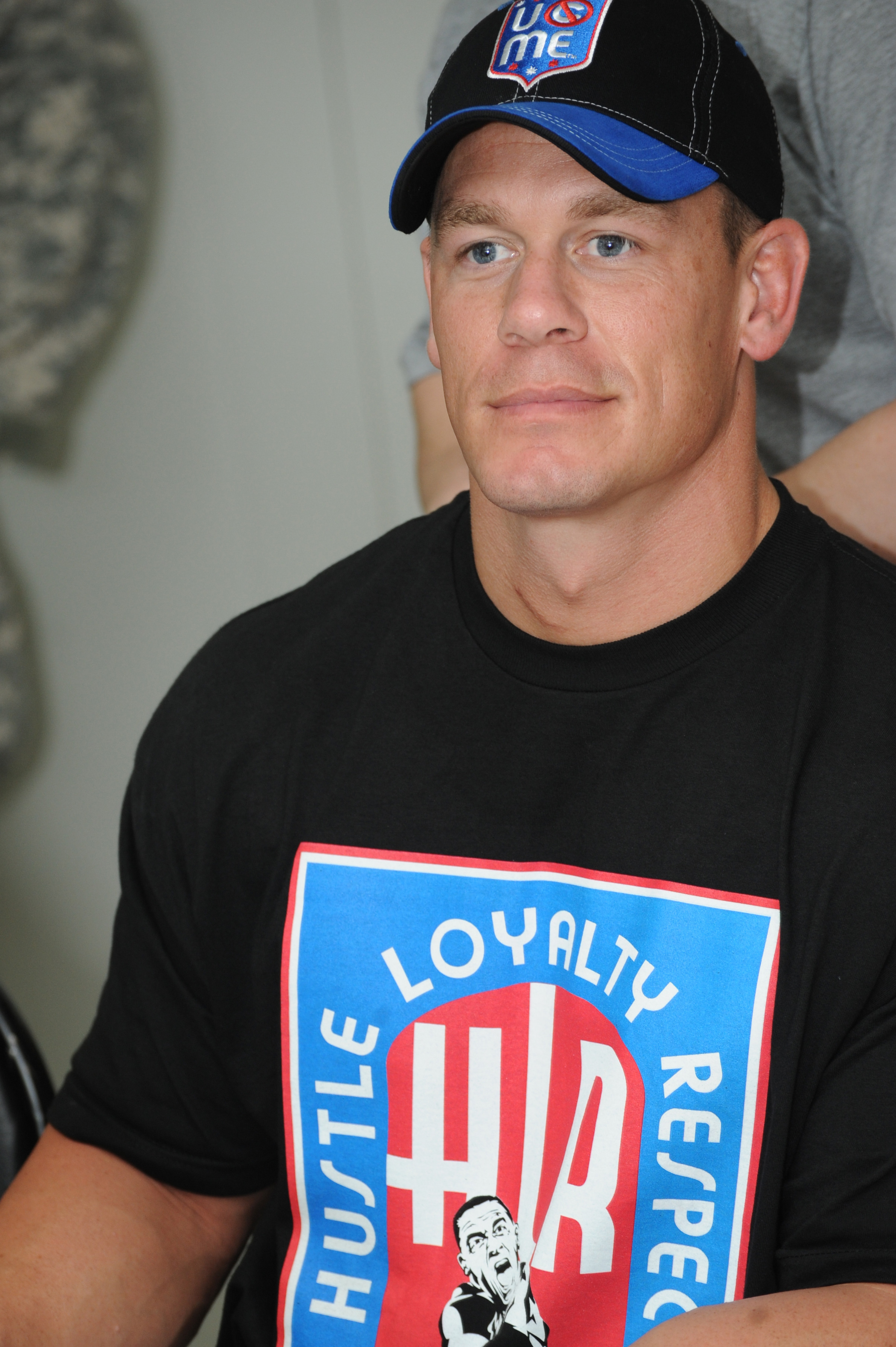 Date: 12.04.2008 Posted: 12.09.2008 03:38 Photo ID: 134616 VIRIN: 081204-A-4676S-078 Location: Forward Operating Base Loyalty, IQ World Wrestling Entertainment's John Cena listens to a U.S. Soldier of 4th Brigade Combat Team, 10th Mountain Division, while signing autographs at Forward Operating Base Loyalty, Beladiyat, eastern Baghdad, Iraq, on Dec. 4, 2008. The WWE wrestlers stopped at FOB Loyalty to sign autographs and pose with Soldiers for photographs.